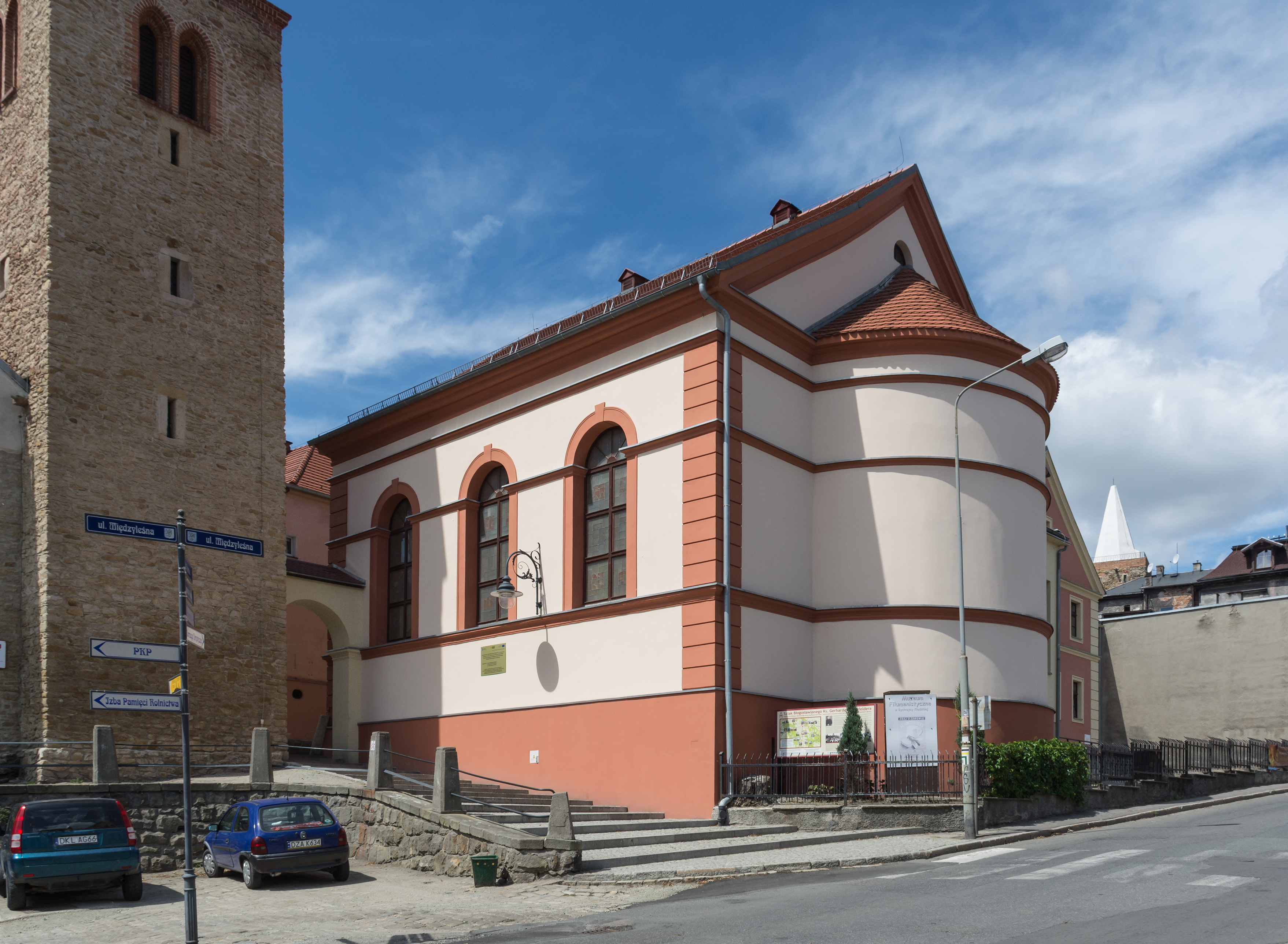 Former Evangelical church in Bystrzyca Kłodzka